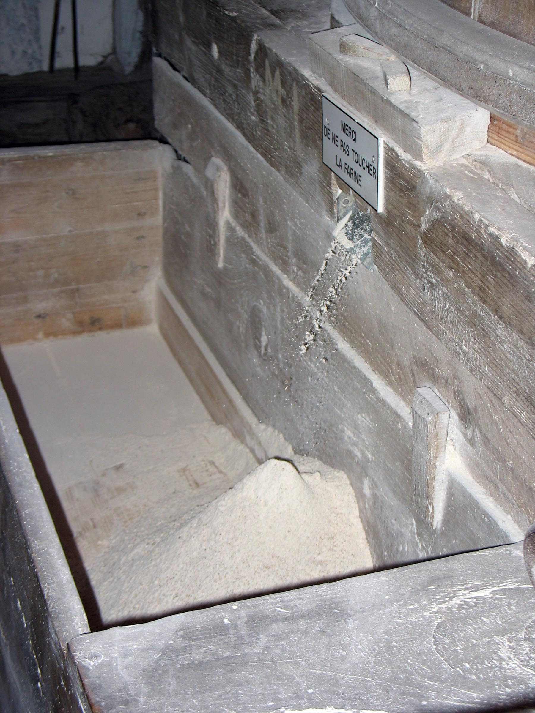 Flour mill at ecomuseum of the Grande Lande in Marquèze (France).